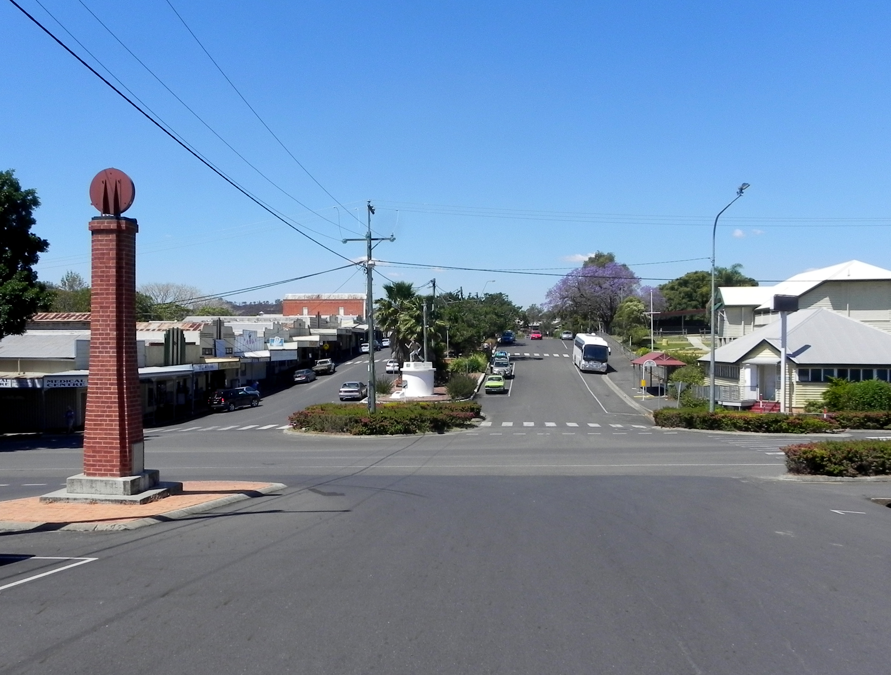 A topical business day on Morgan Street, the main street of Mount Morgan, Queensland, Australia. Photo taken by winxptwker (aka Jason) on 3 October 2011.